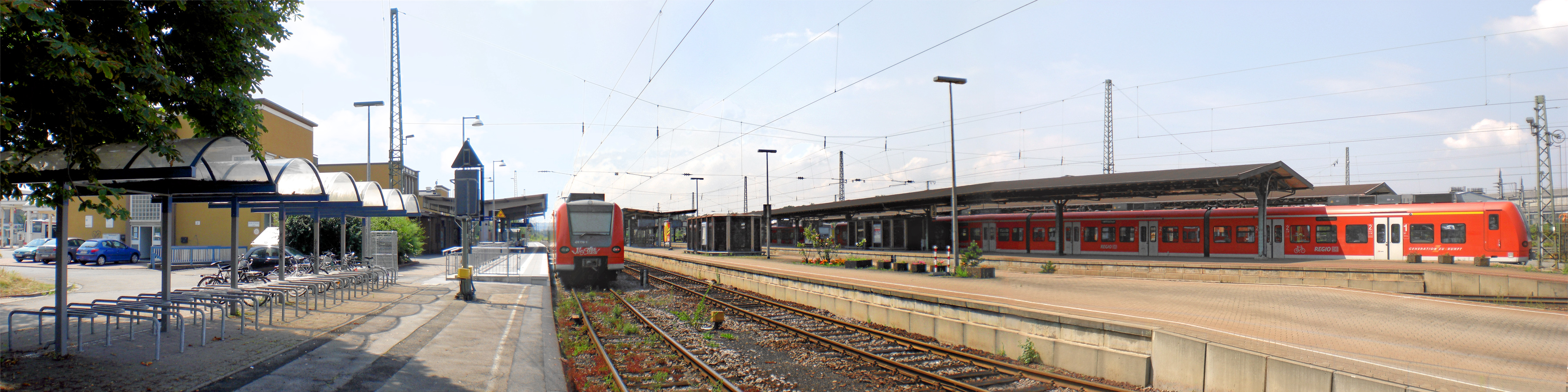 Homburg/Saar main station